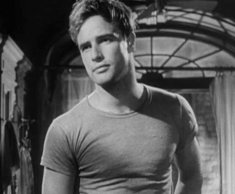 Cropped screenshot of Marlon Brando from the trailer for the film A Streetcar Named Desire (1951